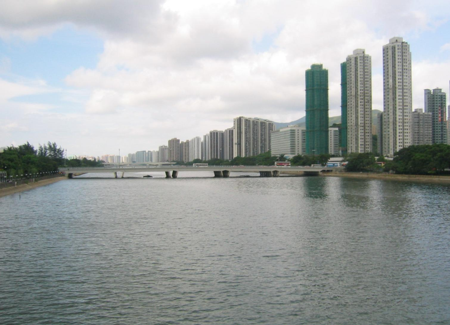 The Shing Mun River at Shatin, Hong Kong